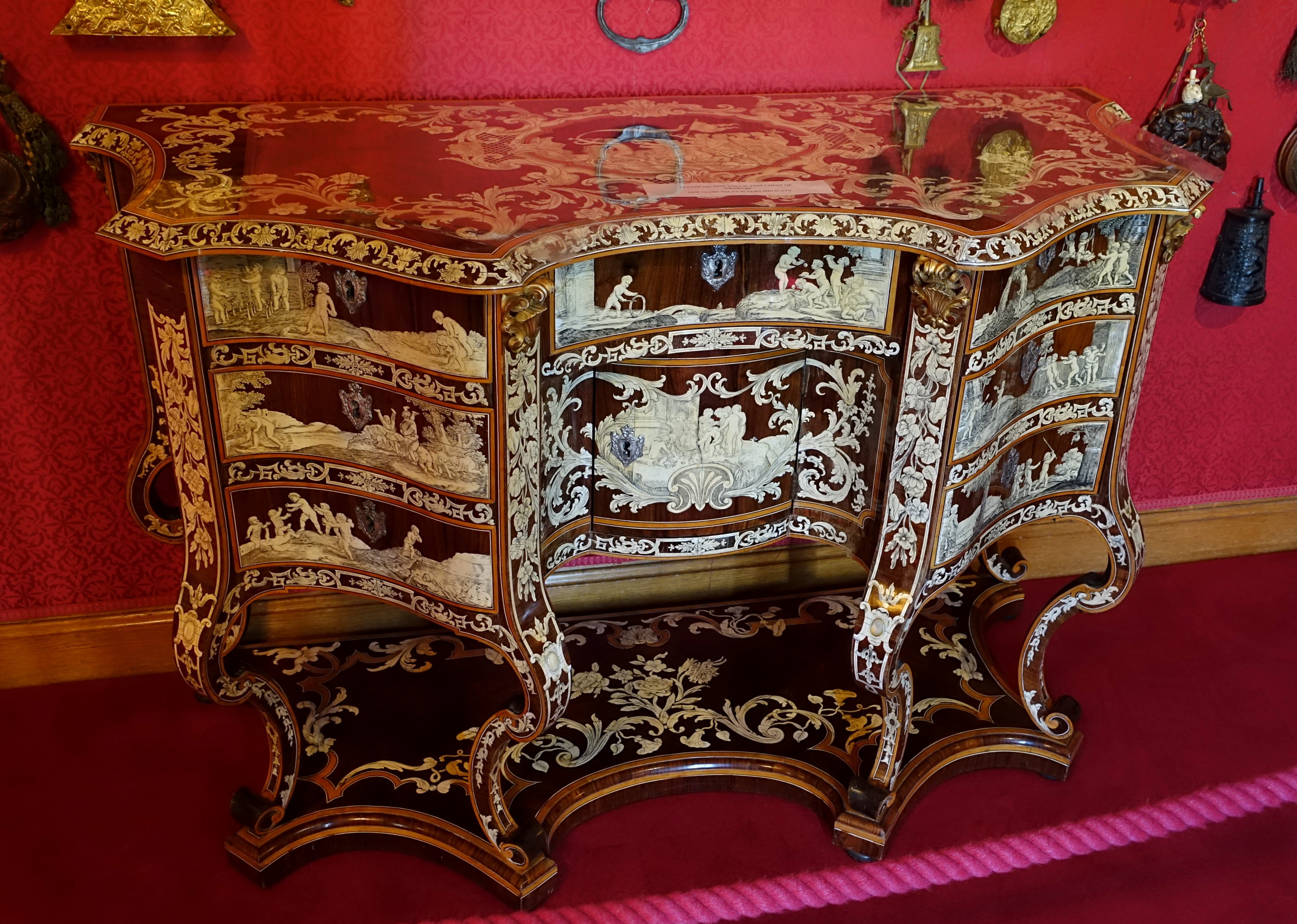 Item in Waddesdon Manor - Buckinghamshire, England.